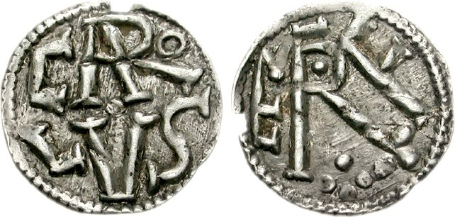 Charlemagne (Charles the Great). As Charles I, King of the Franks, 768-814. AR Denier (1.05 g, 3h). Pre-reform coinage. Milan mint. Struck circa 771-793/4. CARO/LVS in two lines / Large Rx F, MED in monogram form to left; horizontal bar above, below, pellet within R. Depeyrot 662D; Haertle -; M&G 226; MEC 1, 733; CNI V -.